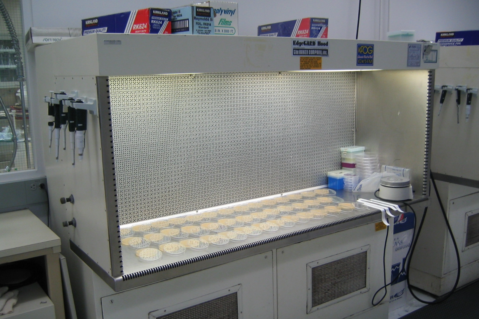 A laminar flow hood, which provides a dust-free environnment where molten agar can solidify and dry without becoming contaminated.